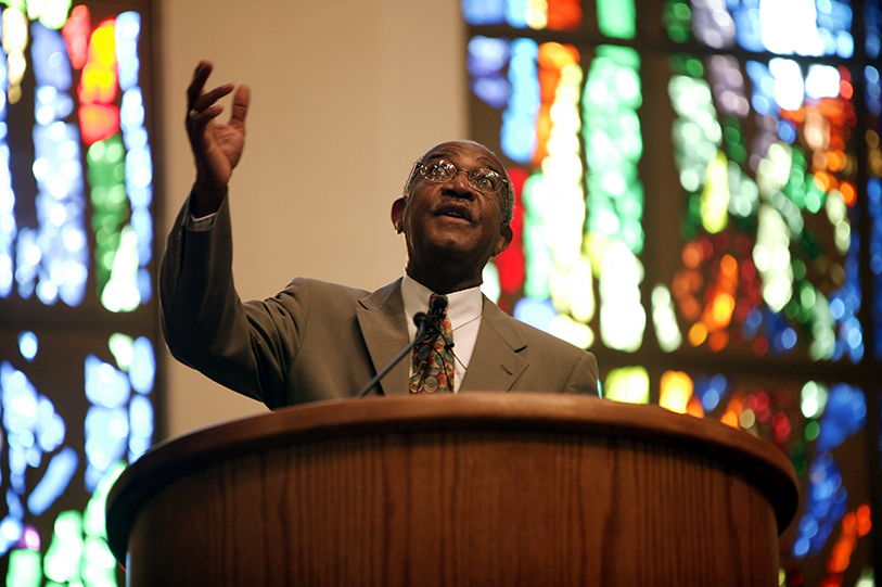 Rev. Dr. James Alexander Forbes, Jr., speaking during CrossWalk America 2006, at the Beatitudes Church in Phoenix, Arizona.